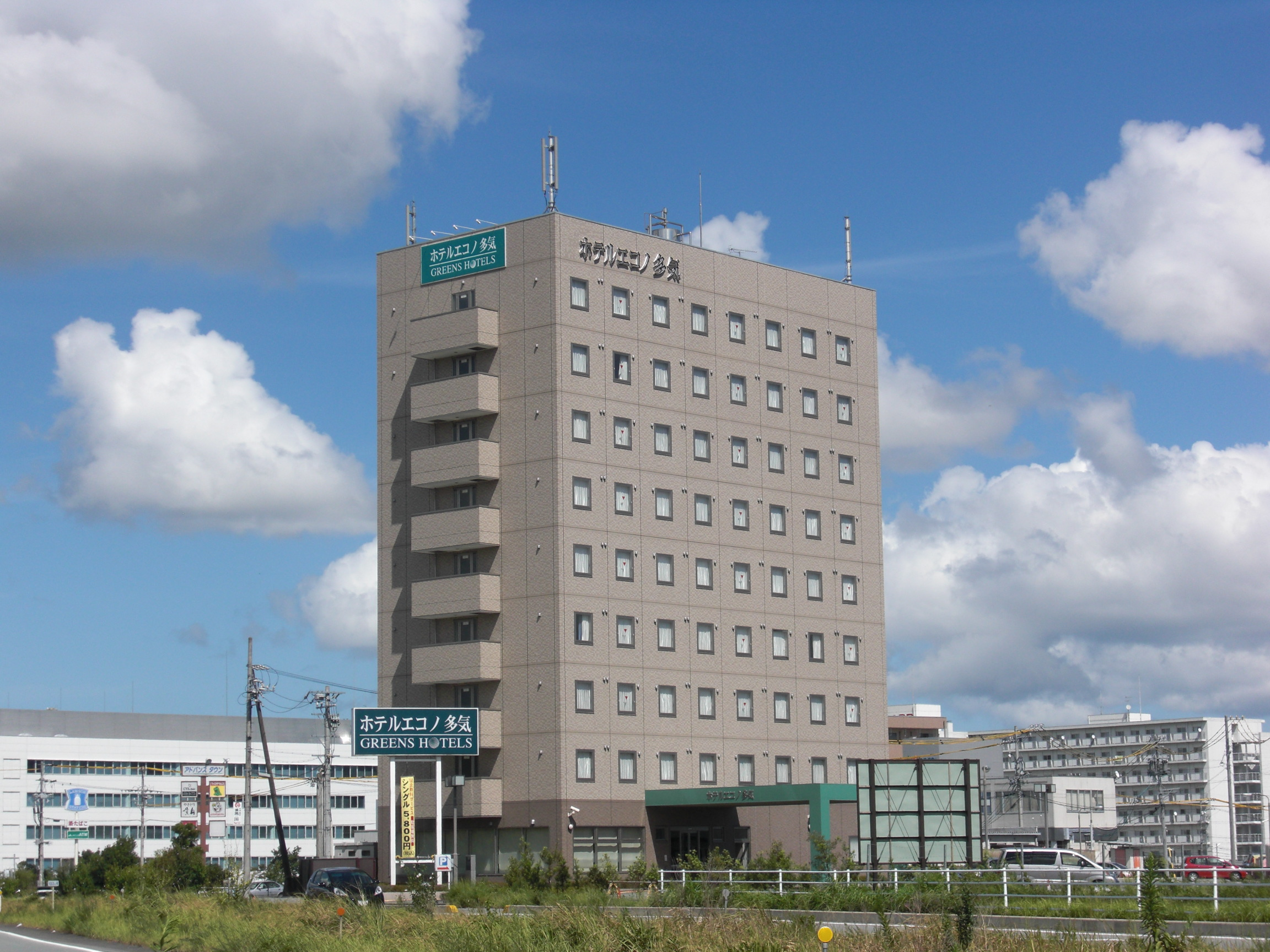 This is a hotel in Taki, Mie, Japan.